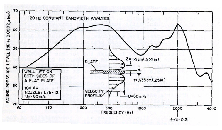 sound from flow